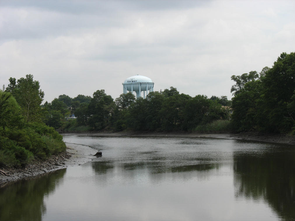 Author:Mojerzey Picture taken from the Lawrence St. Bridge on August 2006.